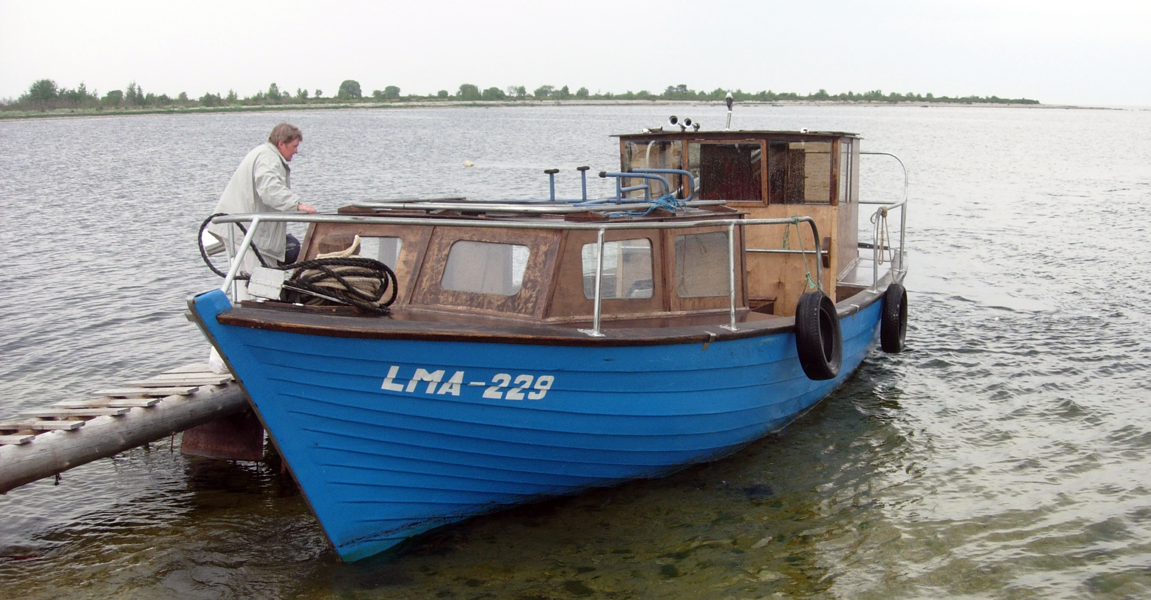 Floating Dock on the island of Osmussaar, Estonia.